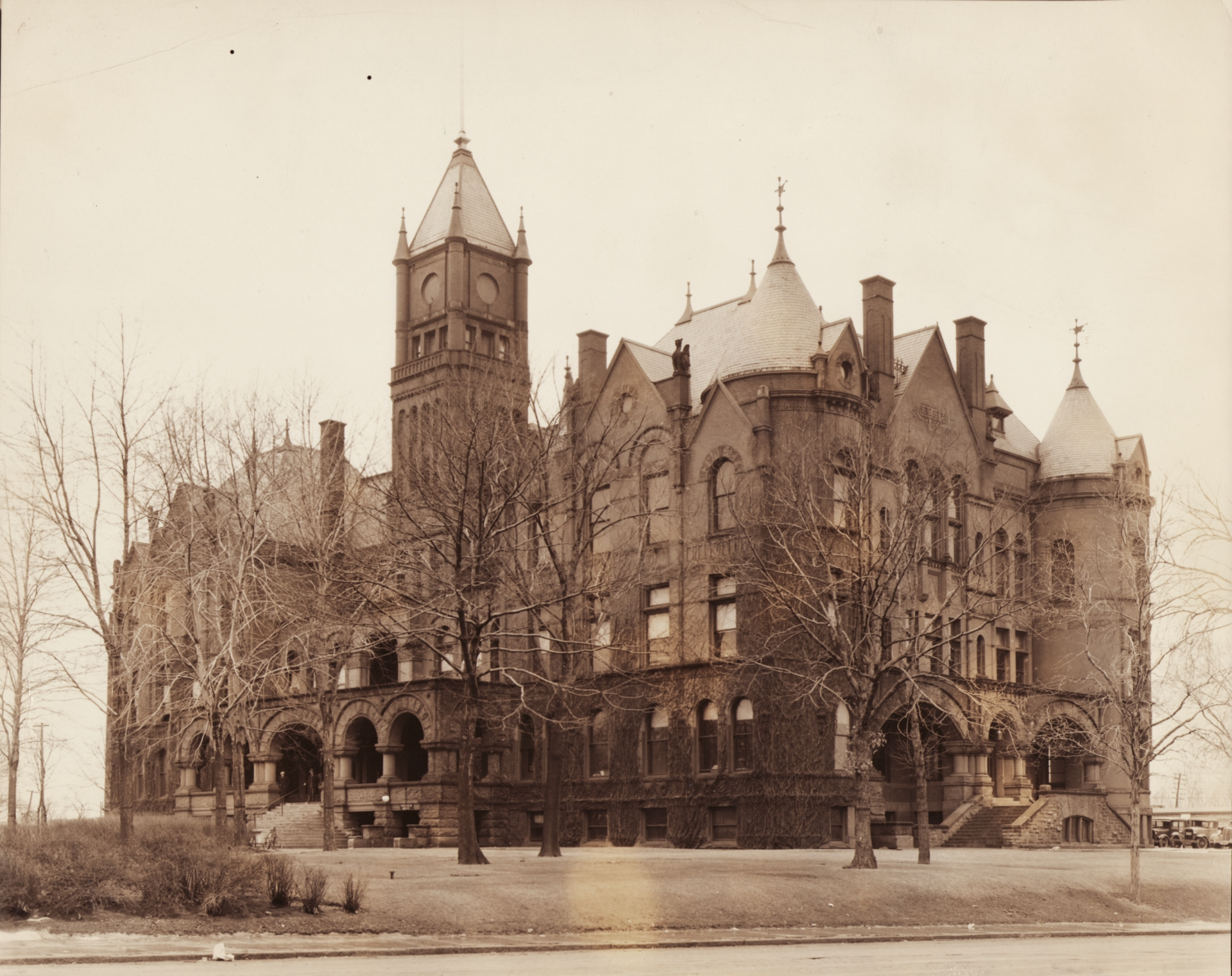 Original city hall of the two consolidated Saginaw's (Saginaw City and East Saginaw) 1893